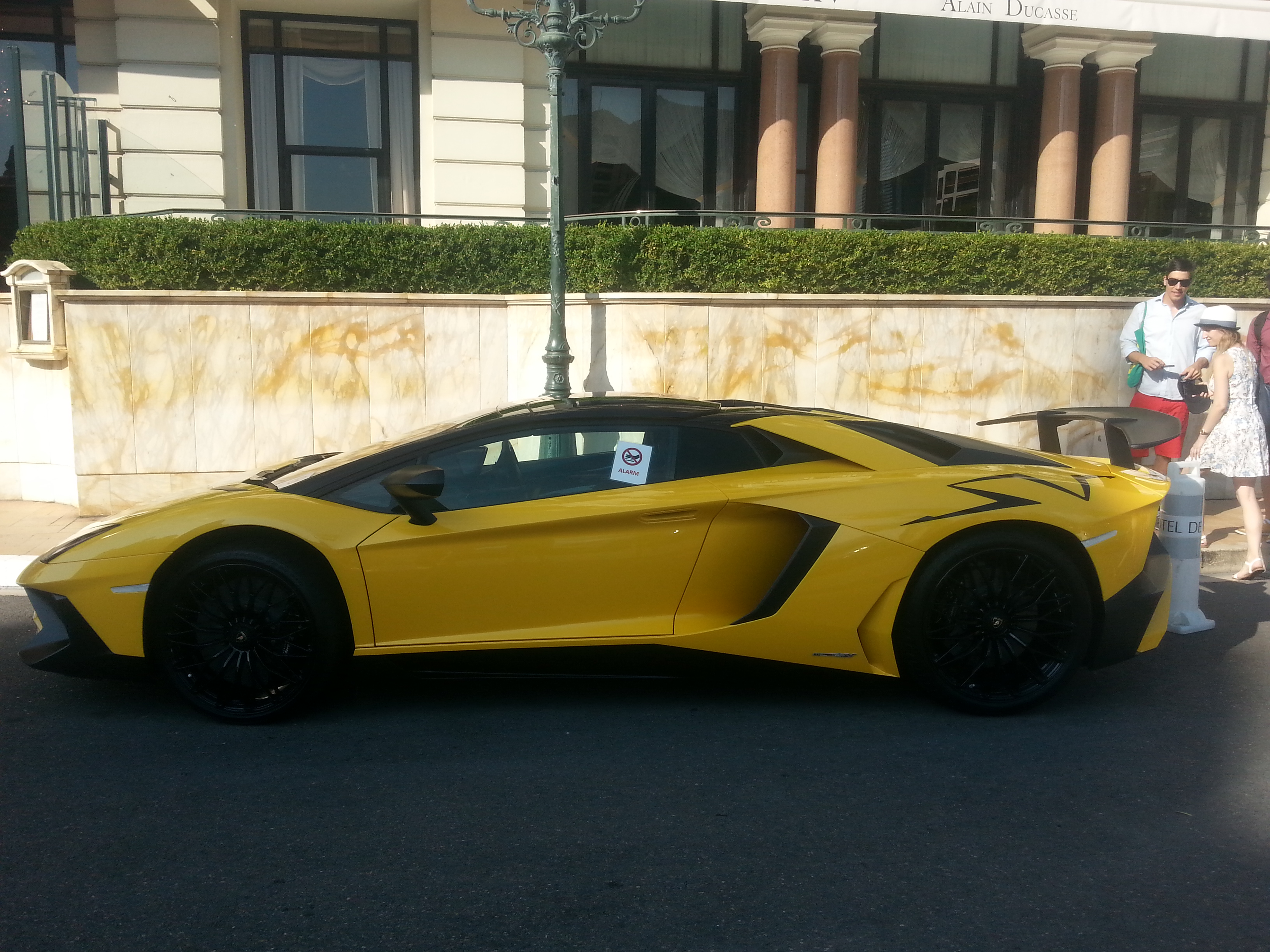 Yellow Lamborghini parked in between the Casino de Montecarlo and the Hotel de Paris, Monaco. August 2016.